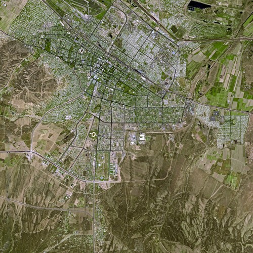 Ashgabat by SPOT Satellite